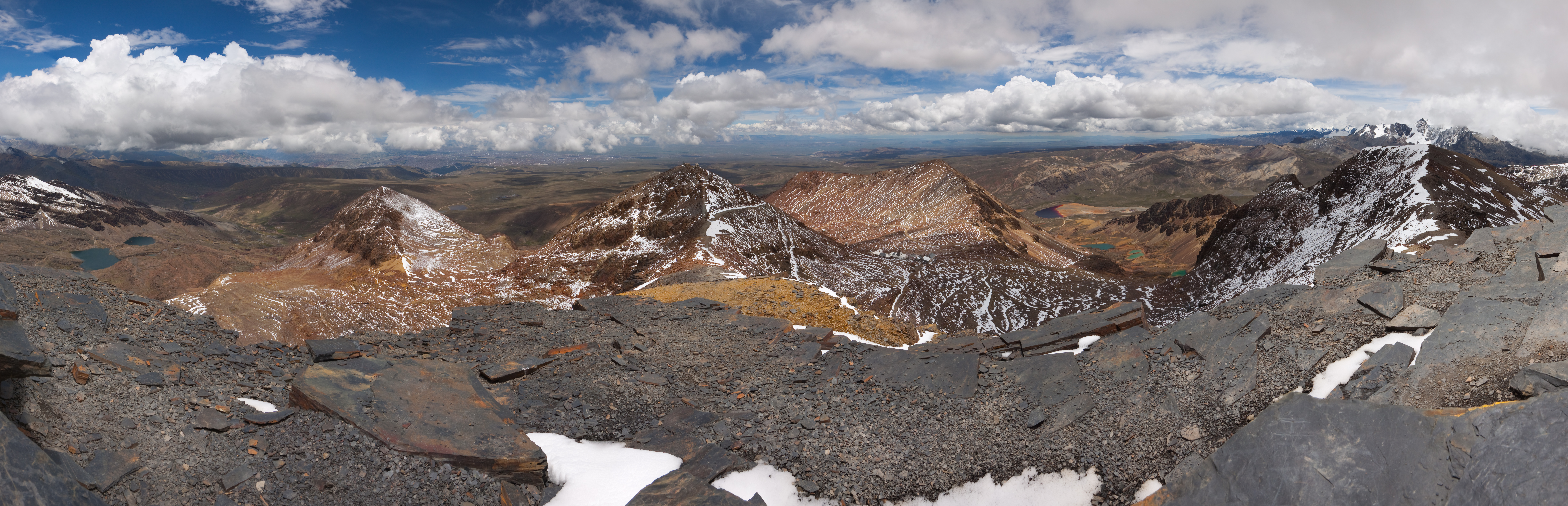 A panoramic view from the top of Chacaltaya (5421m). In the background you can see the cities of La Paz and El Alto (distance about 15km), as well as Lake Titicaca (distance about 50km). Panorama stitched from 16 portrait format images. The camera was rotated using a Nodal Ninja [1] nodal point adapter which was mounted on a tripod. All photos were taken with the same exposure settings in RAW format and developed with exactly the same settings in a RAW converter. For stitching PTGUI [2] was used.